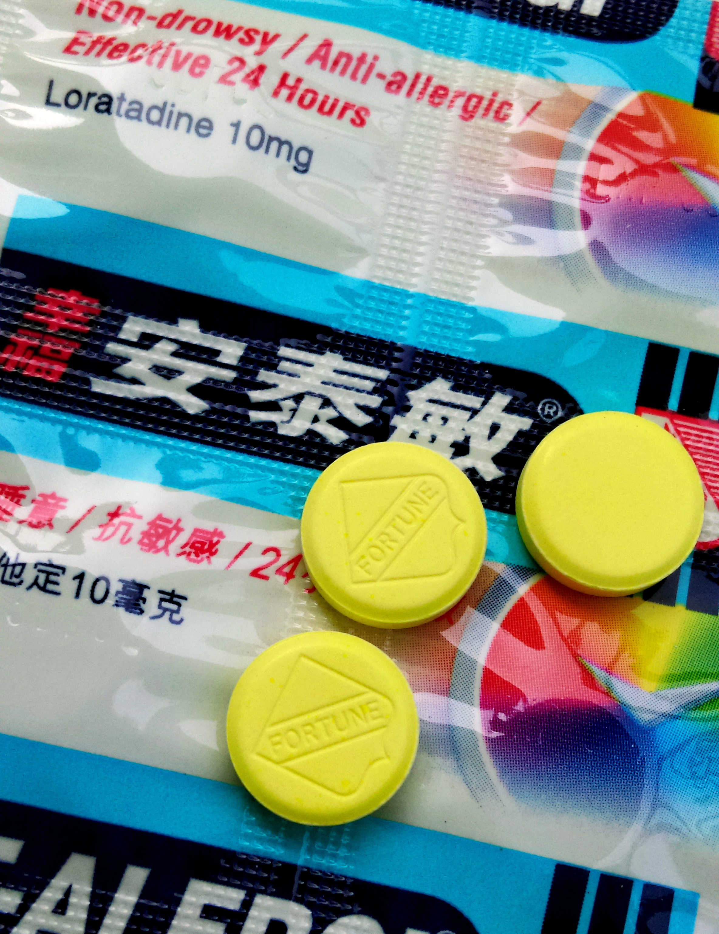 NT-Alergi tablet (contains Loratadine 10mg), Fortune Pharmacal Co. Ltd. Hong Kong.